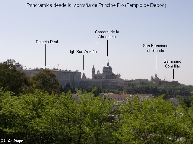 View of Madrid from West, with the Royal Palace of Madrid and the Almudena Cathedral